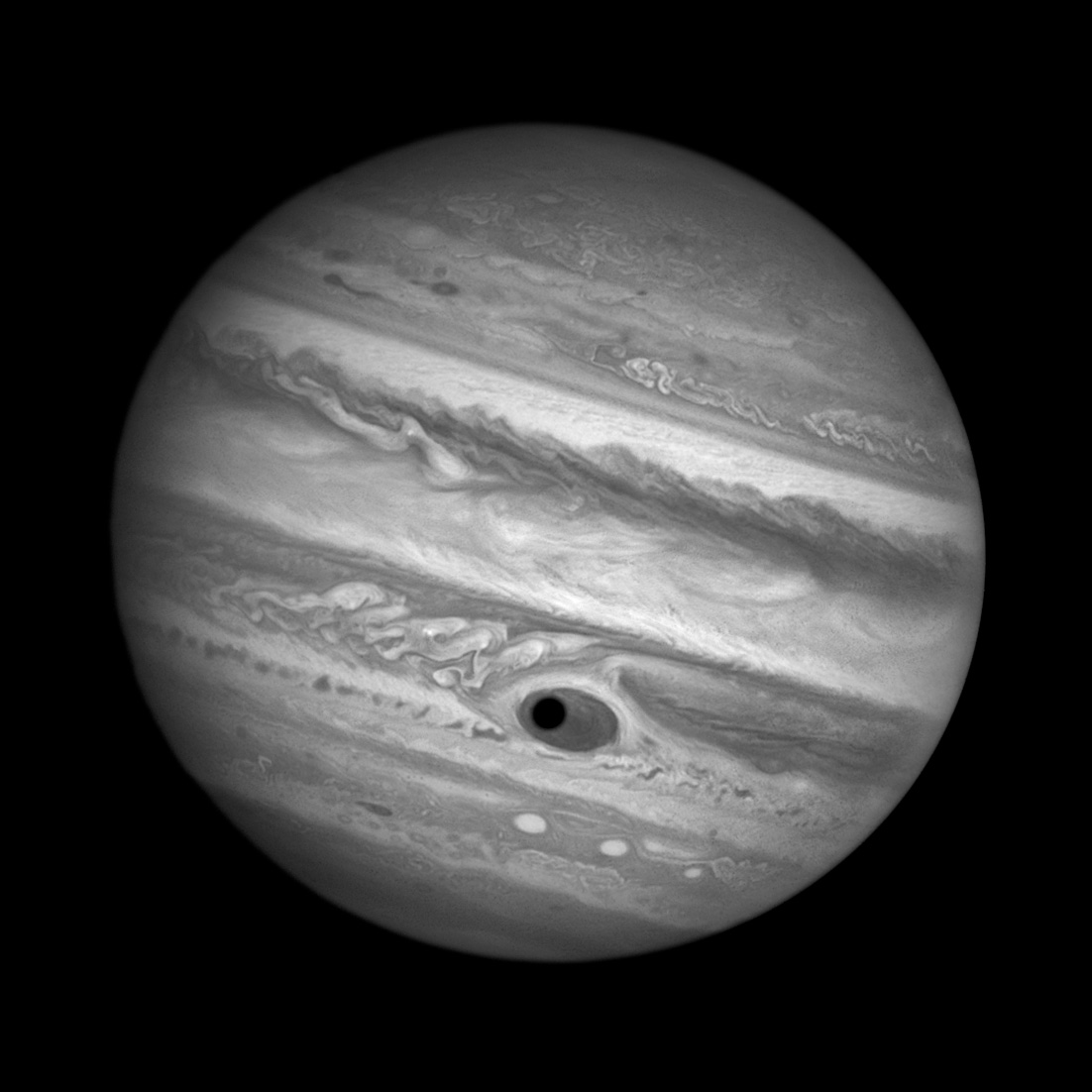 This NASA/ESA Hubble Space Telescope image shows a gorgeous close-up view of the planet Jupiter. Astronomers were using Hubble to monitor changes in Jupiter's immense Great Red Spot (GRS) storm. During the exposures, on 21 April 2014, the shadow of the Jovian moon Ganymede swept across the center of the GRS. Giving the giant planet the uncanny appearance of having a pupil in the center of a 16 000 kilometre wide eye. Links: NASA Press release Jupiter's Great Red Spot and Ganymede's shadow— colour